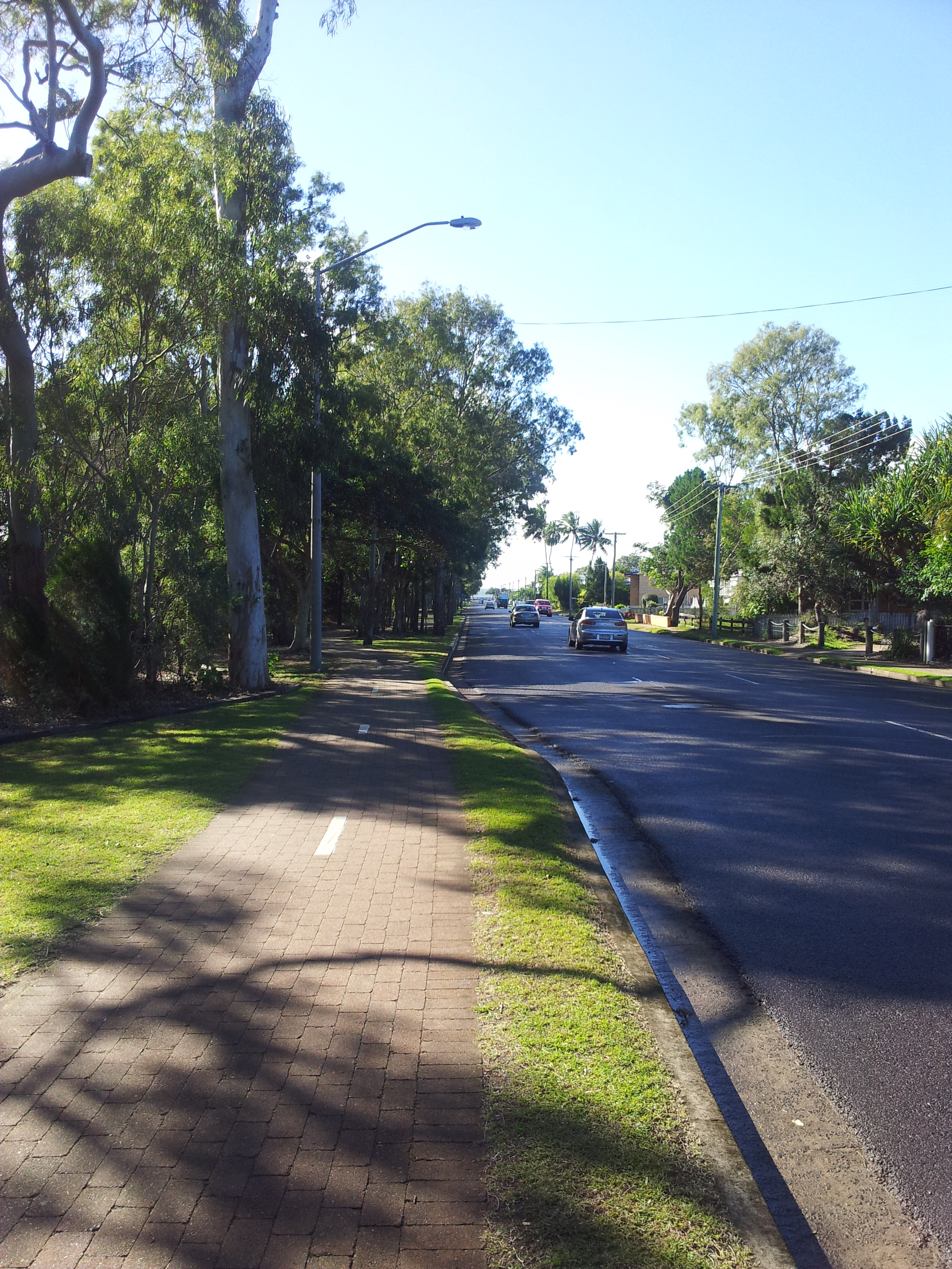 The Esplanade, Urangan, Qeensland.